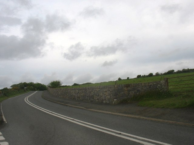 Junction with the B5108 west of Tyn-y-gongl This view is taken from the minor leading south to Llabedrgoch and the A5025.